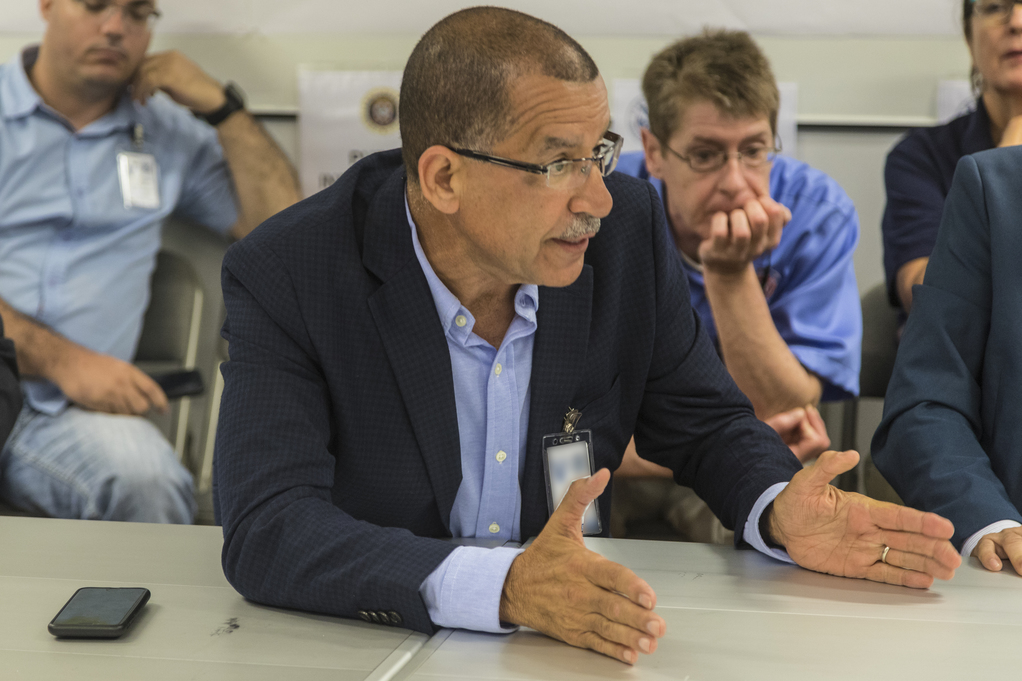 Guaynabo, Puerto Rico, March 20, 2018 – Bernardo “Betito” Marquez Garcia (center, hands extended), Mayor of Toa Baja, speaks during a leadership briefing with Thomas Bossert (off camera), Assistant to the President for Homeland Security and Counterterrorism, at the FEMA JFO in Guaynabo during a recent visit by Bossert and White House aides to Puerto Rico to review FEMA’s recovery efforts and response to Hurricane Maria, which struck Puerto Rico on September 20, 2017. FEMA partners with federal agencies, the state, local communities, counties, municipalities, volunteer organizations active in disaster (VOAD) and tribal entities to provide assistance to disaster survivors and local communities. Photo by Christopher Mardorf / FEMA.